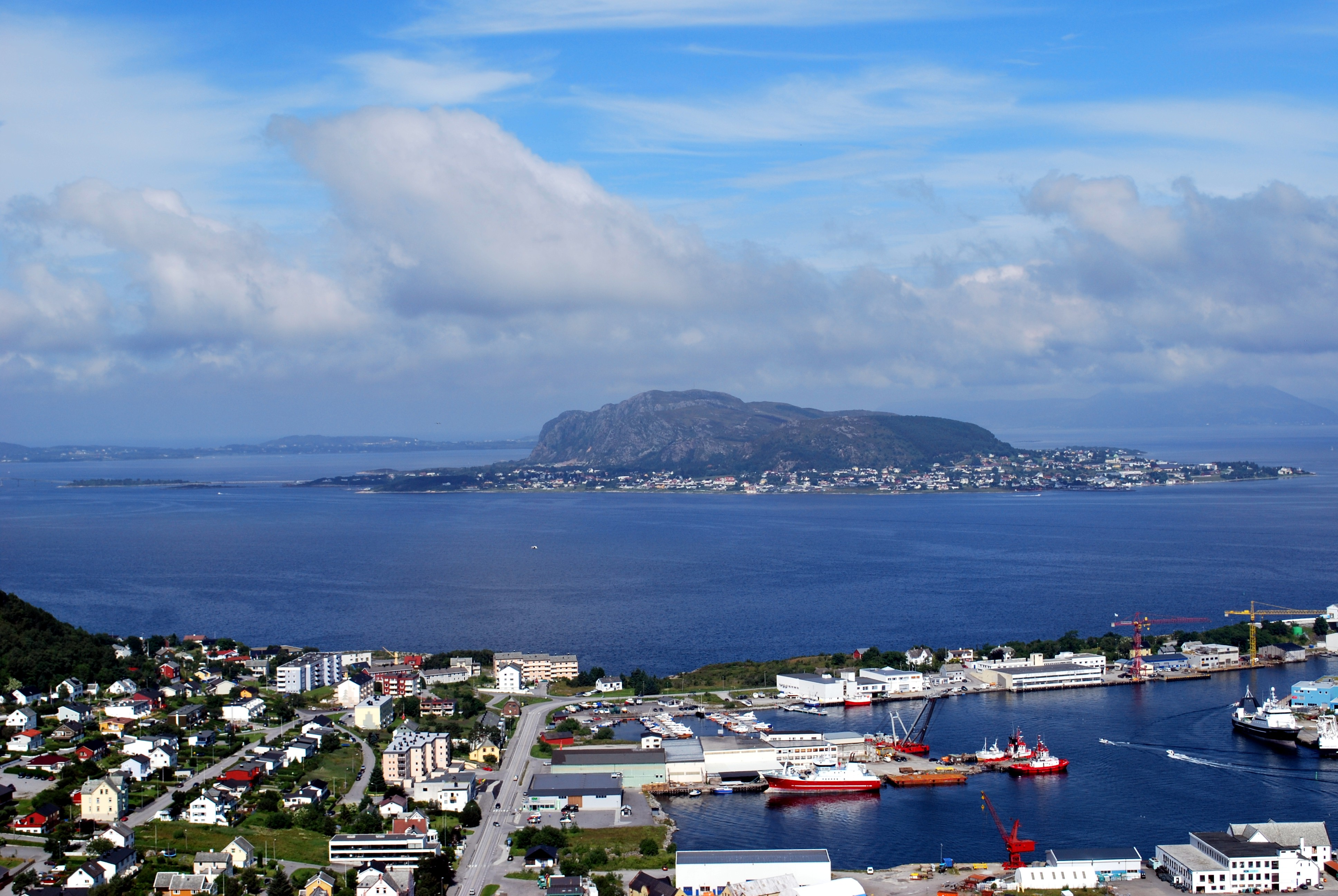 Skarbøvika in Ålesund, Norway, with Valderhaugfjorden and Valderøya in background.